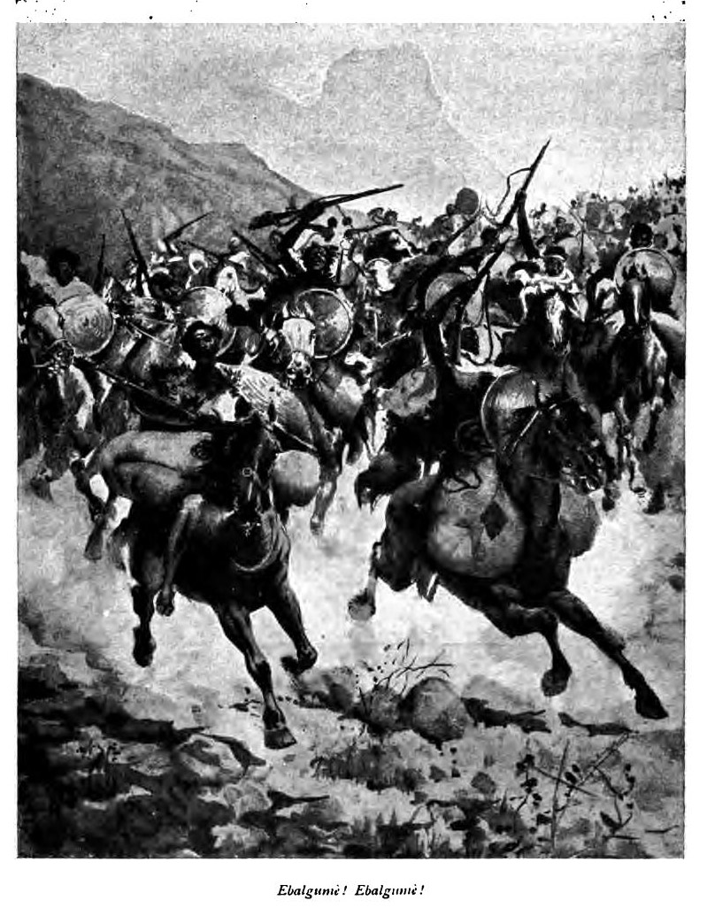 Illustration of Ethiopian troops at the battle of Adua